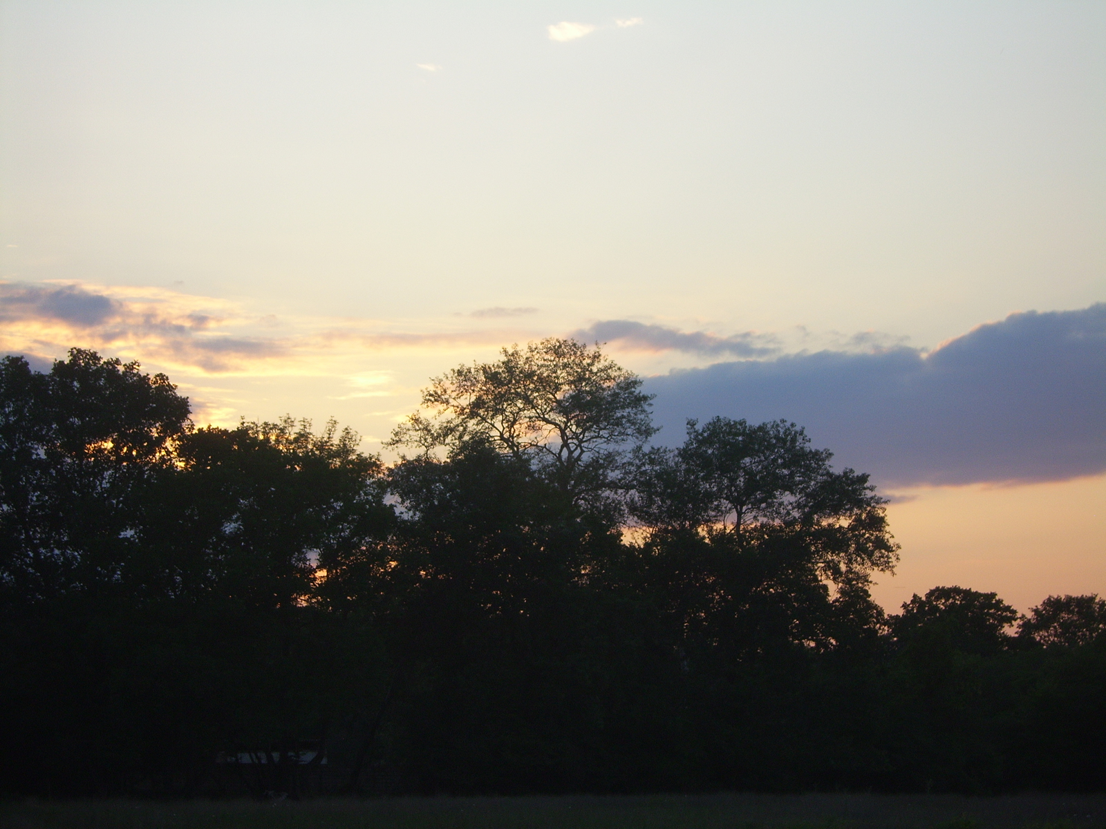 Forest near Nabran, which is located in North Azerbaijan near Caspian 30km South of Derbend. Foto taken in 2006.